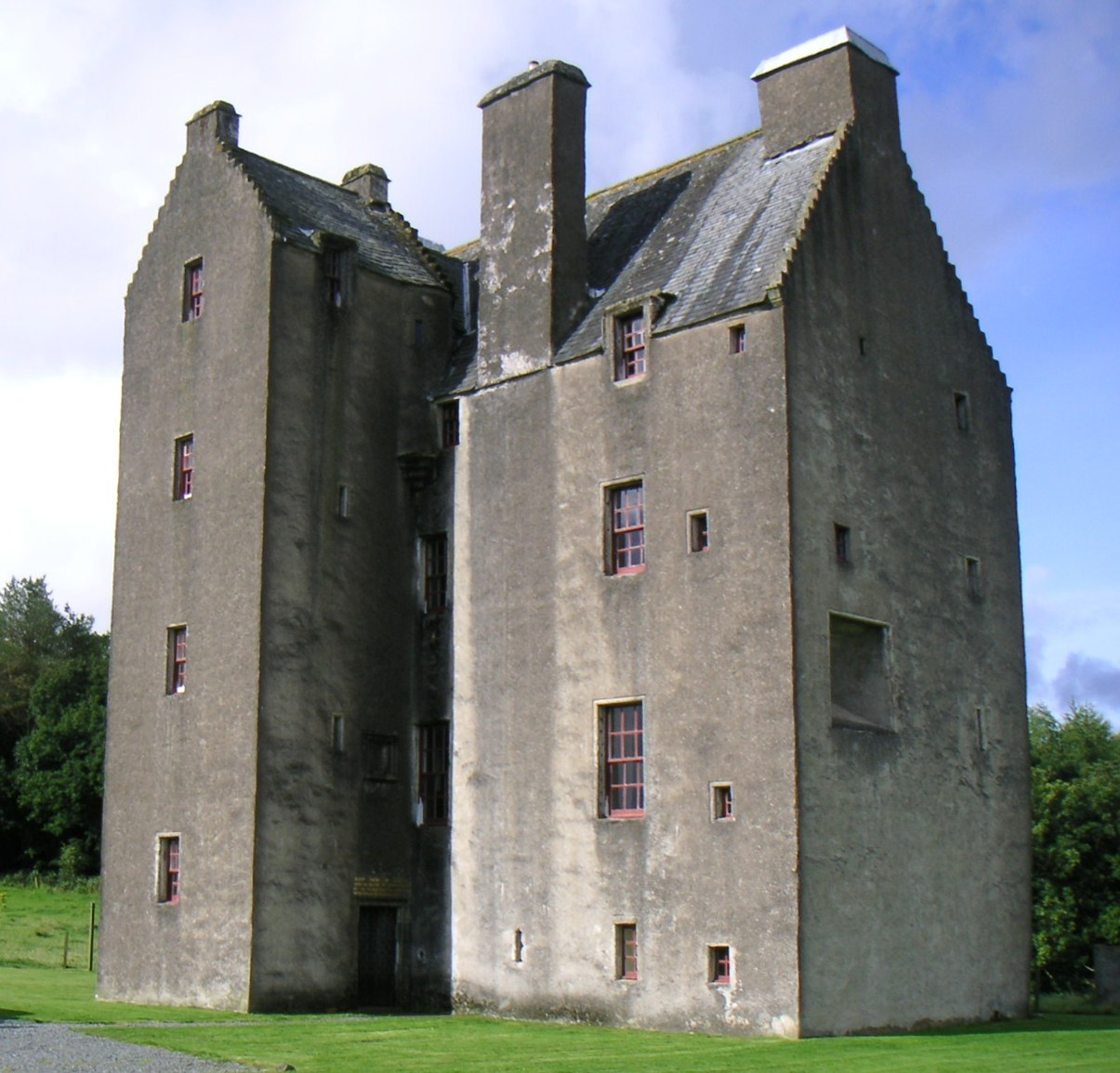 The Castle of Park is a 16th century L-plan tower house near Glenluce, in Dumfries and Galloway, southwest Scotland. It is a category A listed building.